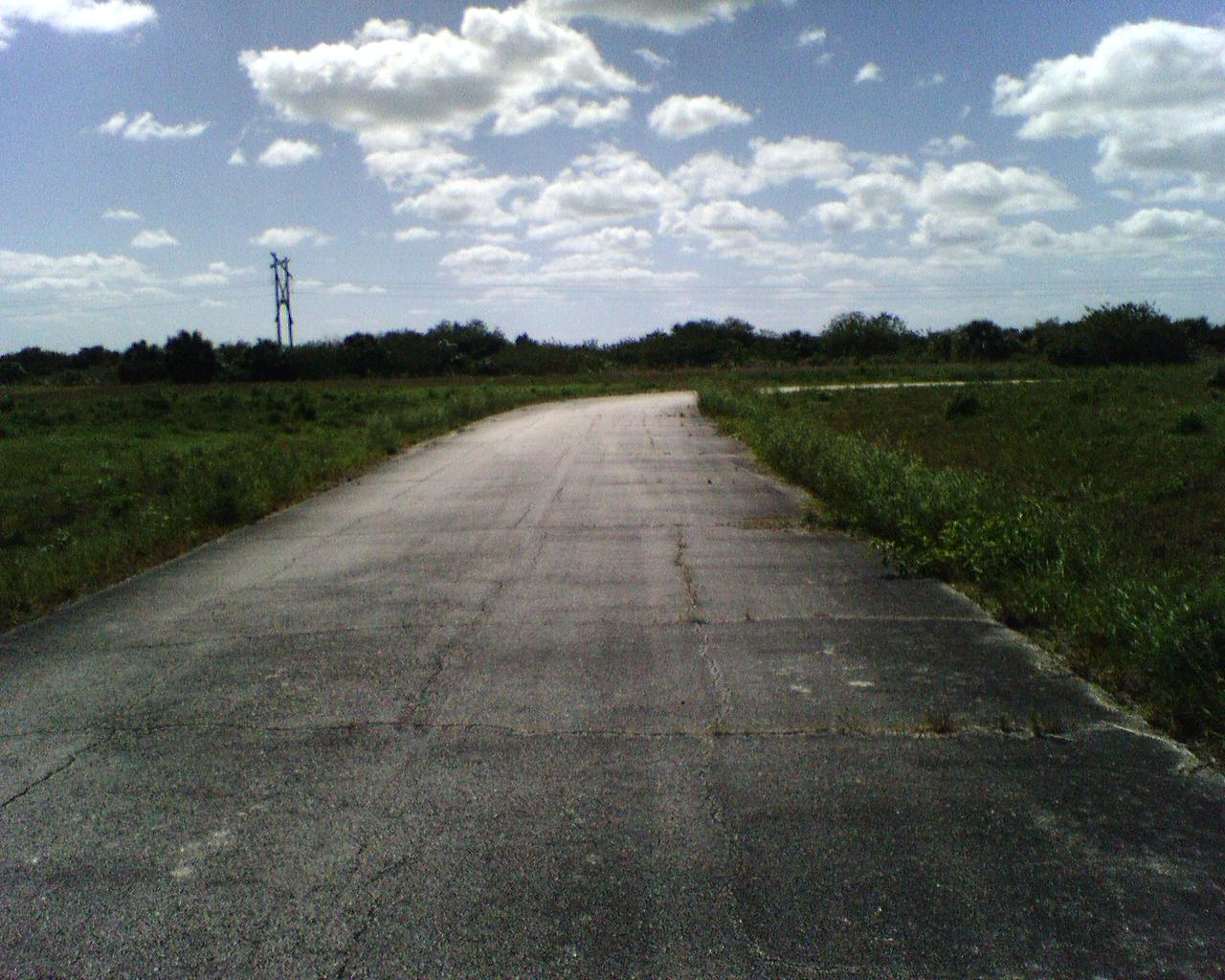 The Compound in Palm Bay, FL Picture taken by Craig LeDebur and released into the public domain.